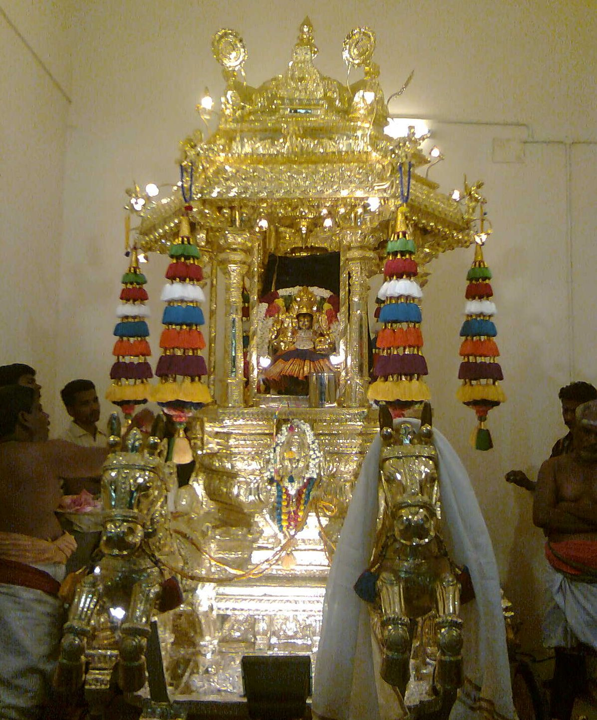 Vekkali Amman Temple Golden Car, Woraiyur, Tiruchirappalli, Tamil Nadu, India